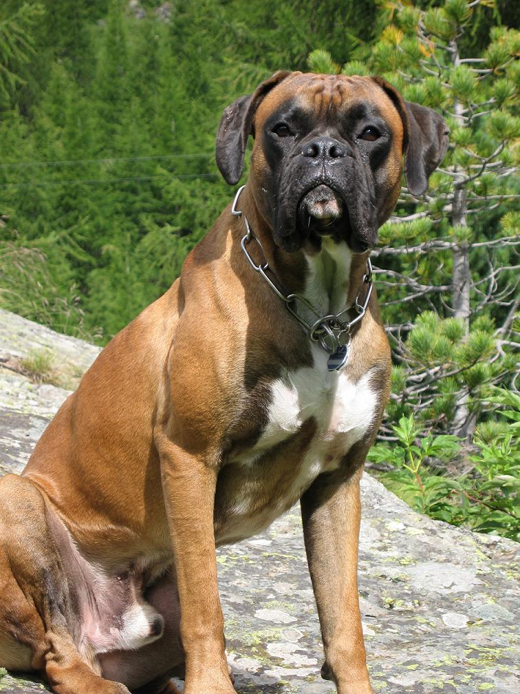 German Boxer, 18 months old.